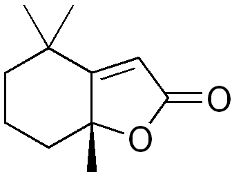 chemical structure of Dihydroactinidiolide